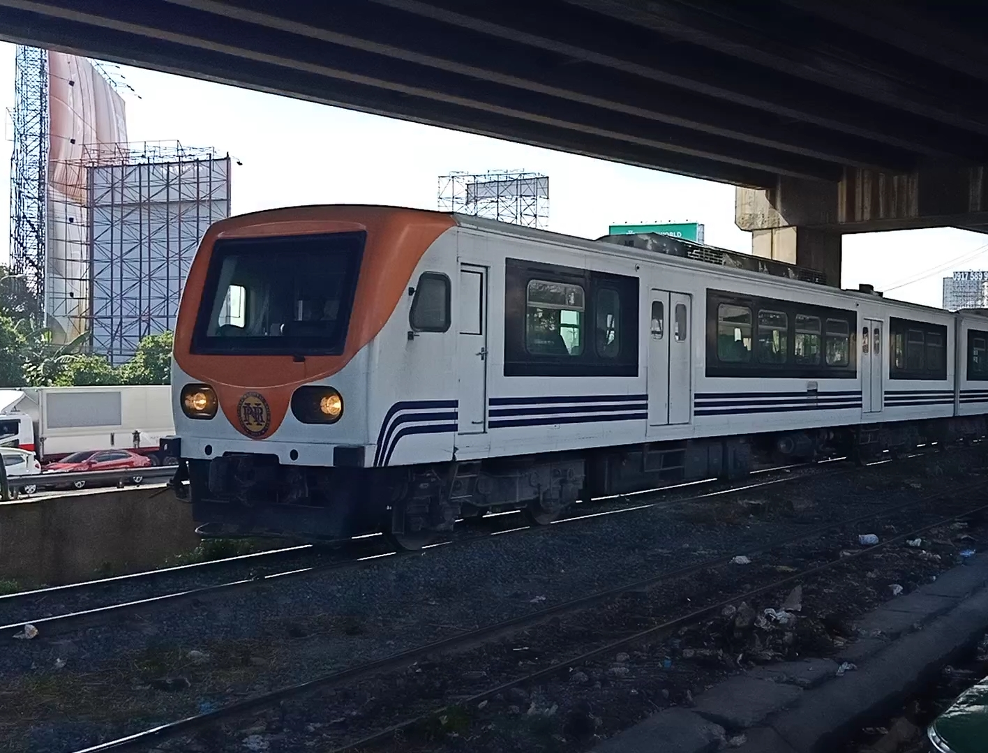 This is the rehabilitated PNR Hyundai Rotem Diesel Multiple Unit. This was repainted in 2019, removing window screens and placing polycarbonate glasses.